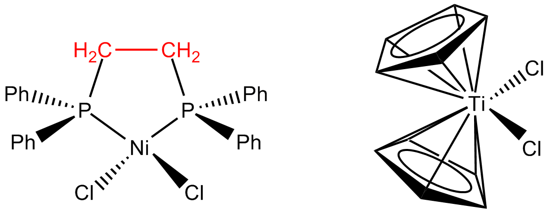 A comparison of denticity and hapticity using a κ2 ligand and an η5 ligand